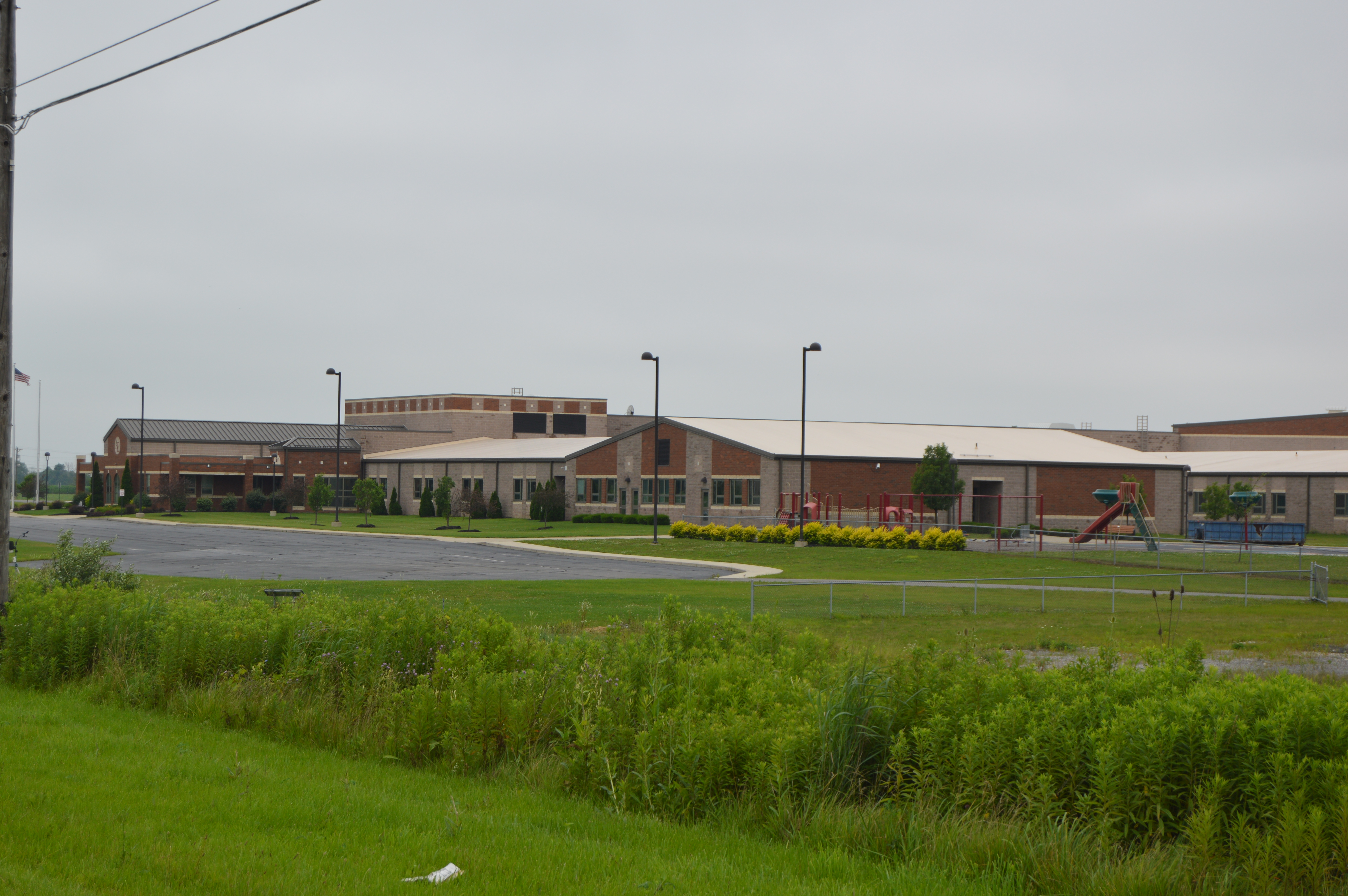 Overview of Allen East High School, located at 9105 State Route 309 south of Lafayette in Jackson Township, Allen County, Ohio, United States.